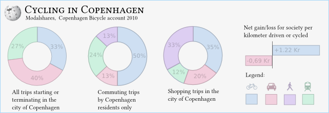 Charts of modal shares for traffic in Copenhagen. This is a rasterized version of the svg source file which was uploaded due to formatting issues